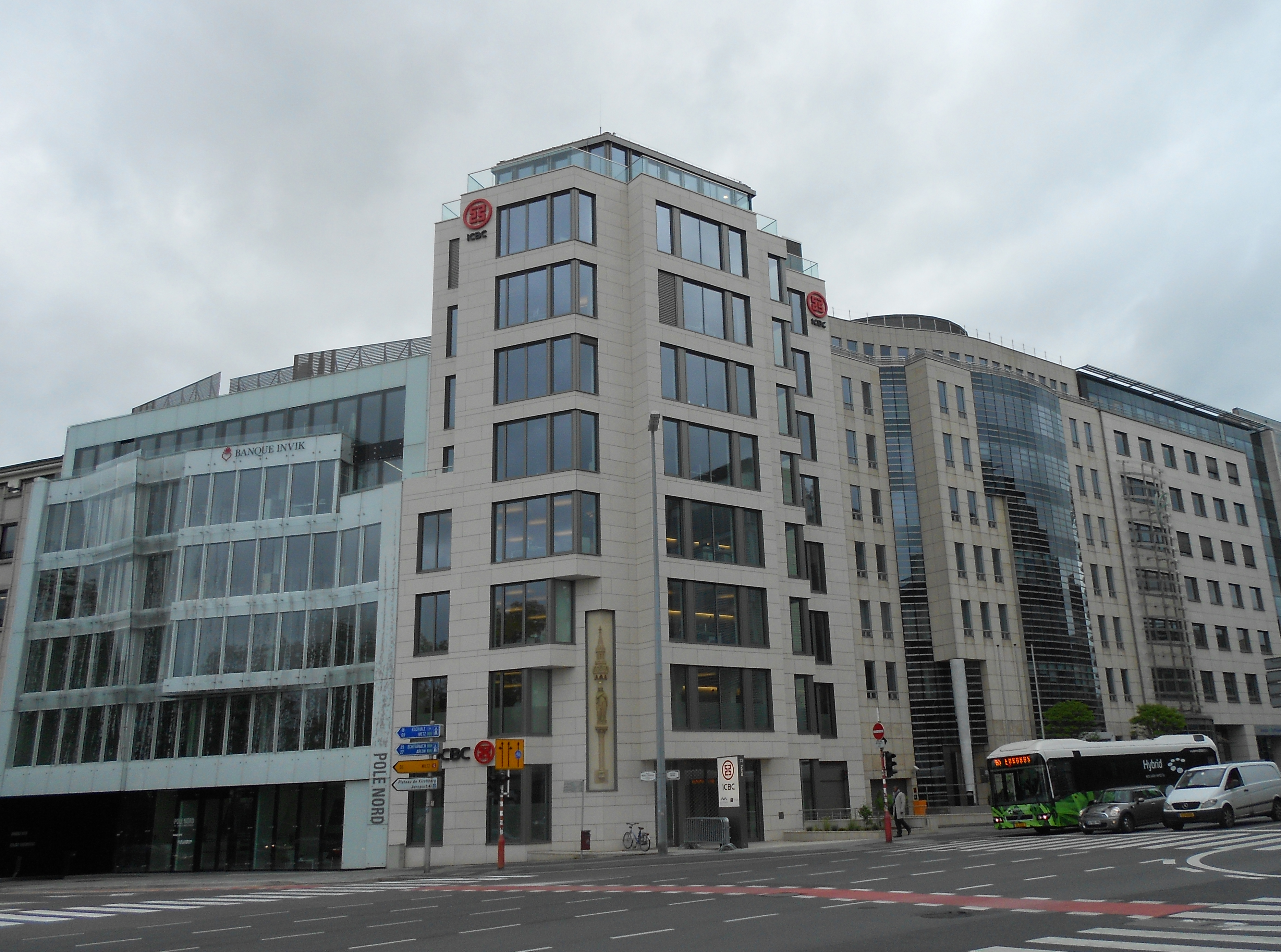 Industrial and Commercial Bank of China (ICBC) in the city of Luxembourg.